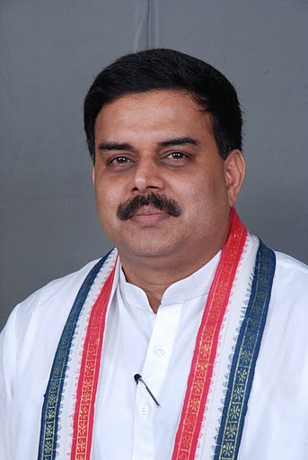 Hon'ble Speaker, Andhra Pradesh Legislative Assembly, India.